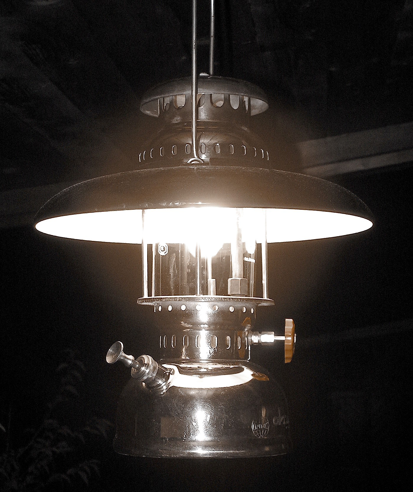 Kerosene Pressure Lantern Optimus 200P